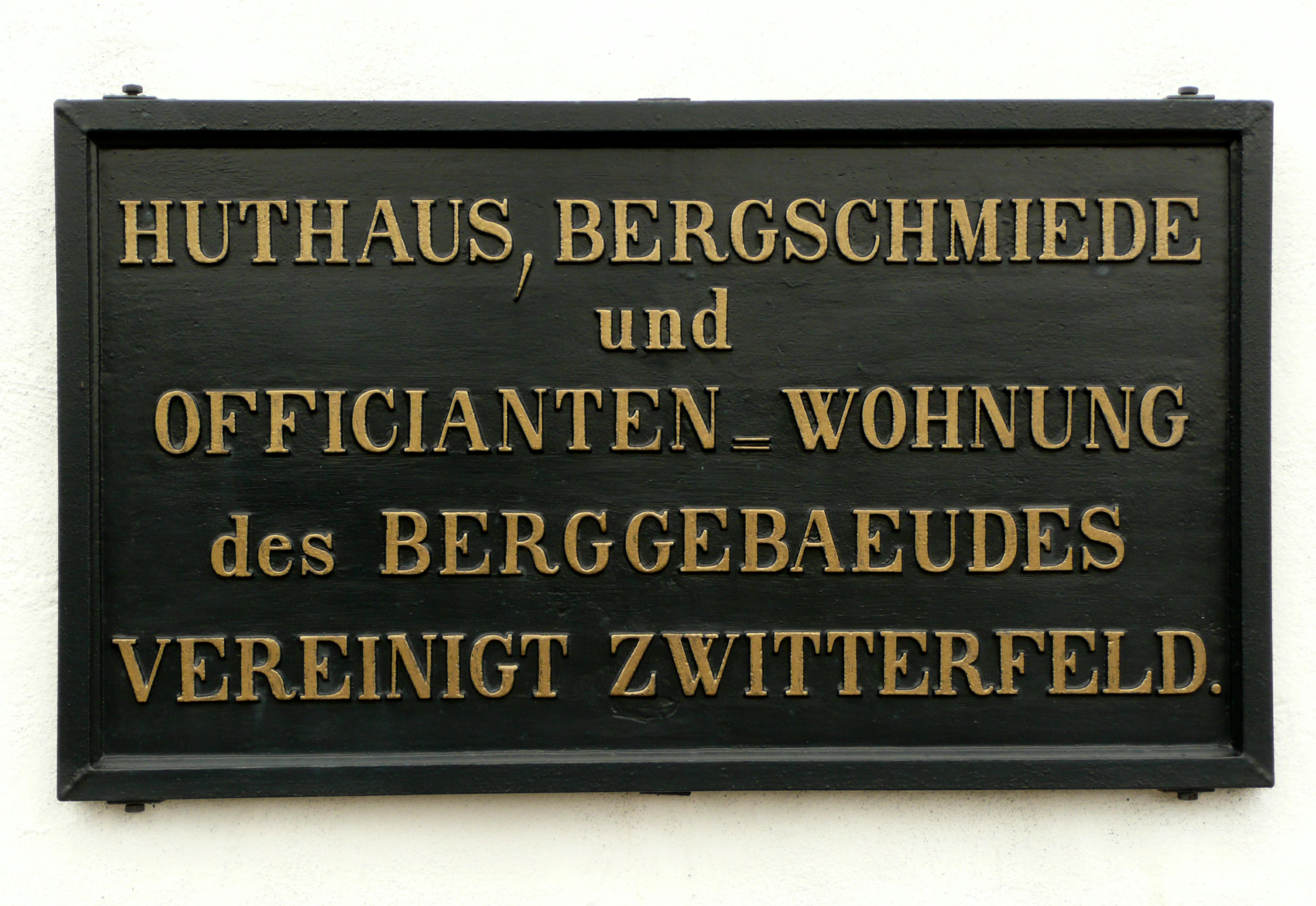 Zinnwald-Georgenfeld: cast iron plate on the former depot of the tin mine Vereinigt Zwitterfeld zu Zinnwald (nowadays used as "museum Huthaus").